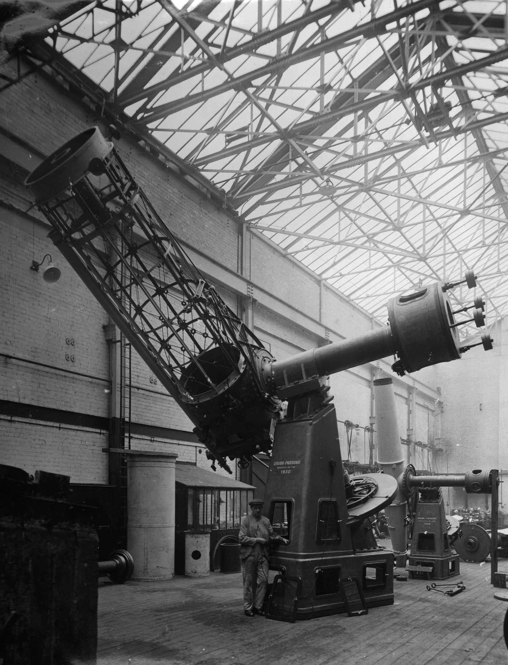 Reference: DS.GP.1919/673 This photograph documents the construction of the Stockholm 40" Reflector, built some time in the early 1920's for the Stockholm Observatory. This photograph is taken from the Grubb Parsons Ltd collection at Tyne & Wear Archives. The records of Grubb Parsons Ltd, Newcastle upon Tyne, England, consist of 65 linear metres (213 linear feet) of files, plans, photographs and glass plate negatives relating to this internationally renowned firm's manufacture of precision telescopic instruments. The original Business was founded in the early nineteenth century by Thomas Grubb, in 1925 the company was acquired by Sir Charles Parsons and continued to manufacture Telescopic and Astronomical instruments until 1985. This Glass Lantern Slide is taken from a large collection that documents the work of Grubb Parsons Ltd at their workshop in Walkergate, Newcastle upon Tyne. It was here that Grubb Parsons Ltd manufactured Telescopic and Astronomical equipment for companies and observatories world wide. Their equipment was designed and built for use and research across the Globe, to name only a few of these locations Grubb Parsons Ltd supplied to the UK, Switzerland, Denmark, Egypt, South Africa, Greece, Australia, Japan, India, Hawaii, Poland, Chile, Canada, France and Spain. (Copyright) We're happy for you to share these digital images within the spirit of The Commons. Please cite 'Tyne & Wear Archives & Museums' when reusing. Certain restrictions on high quality reproductions and commercial use of the original physical version apply though; if you're unsure please